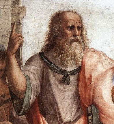 The School of Athens (detail). Fresco, Stanza della Segnatura, Palazzi Pontifici, Vatican.